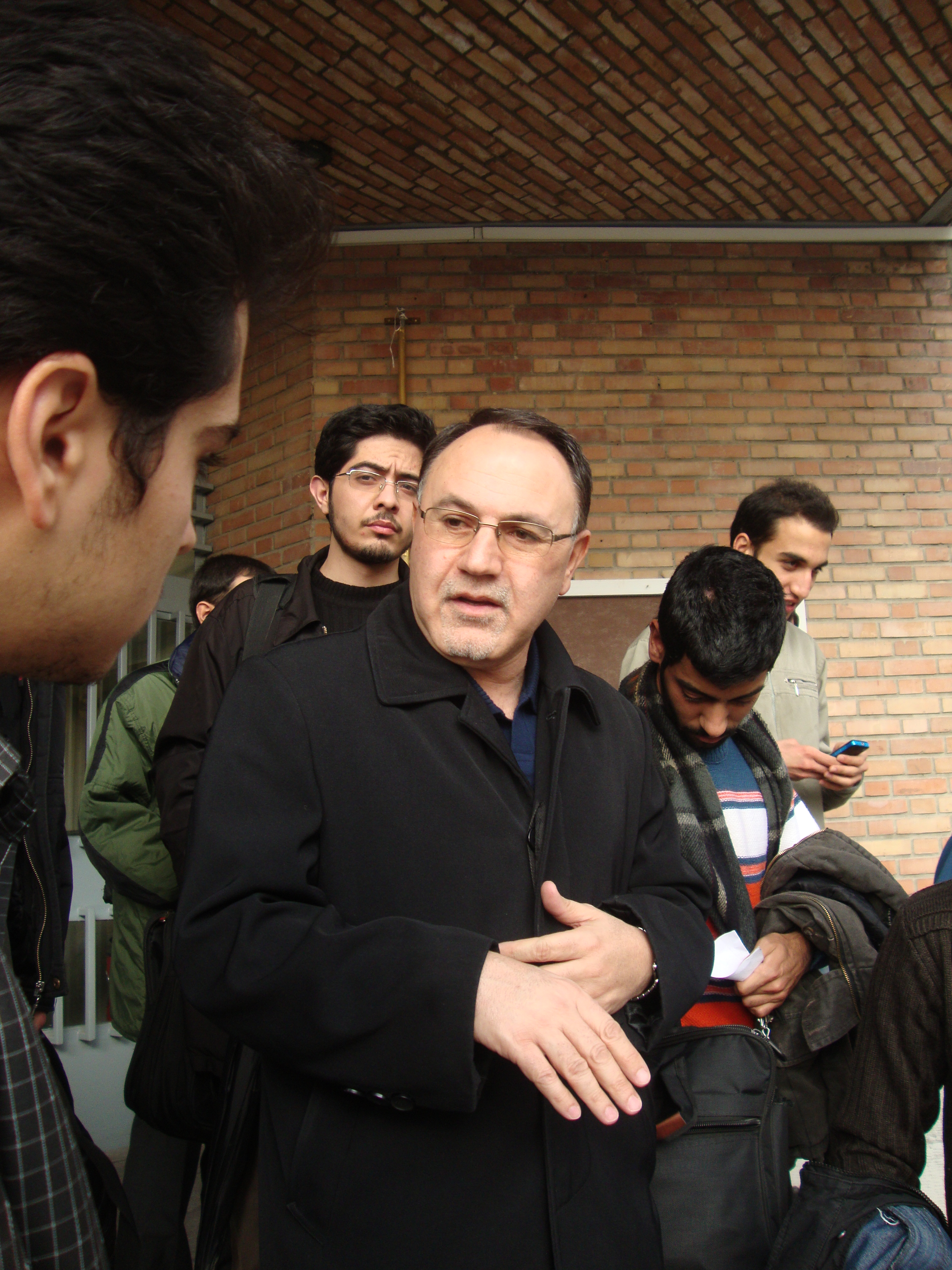 Alireza Alavitabar taking part a debate over religion in modern world in IUST.